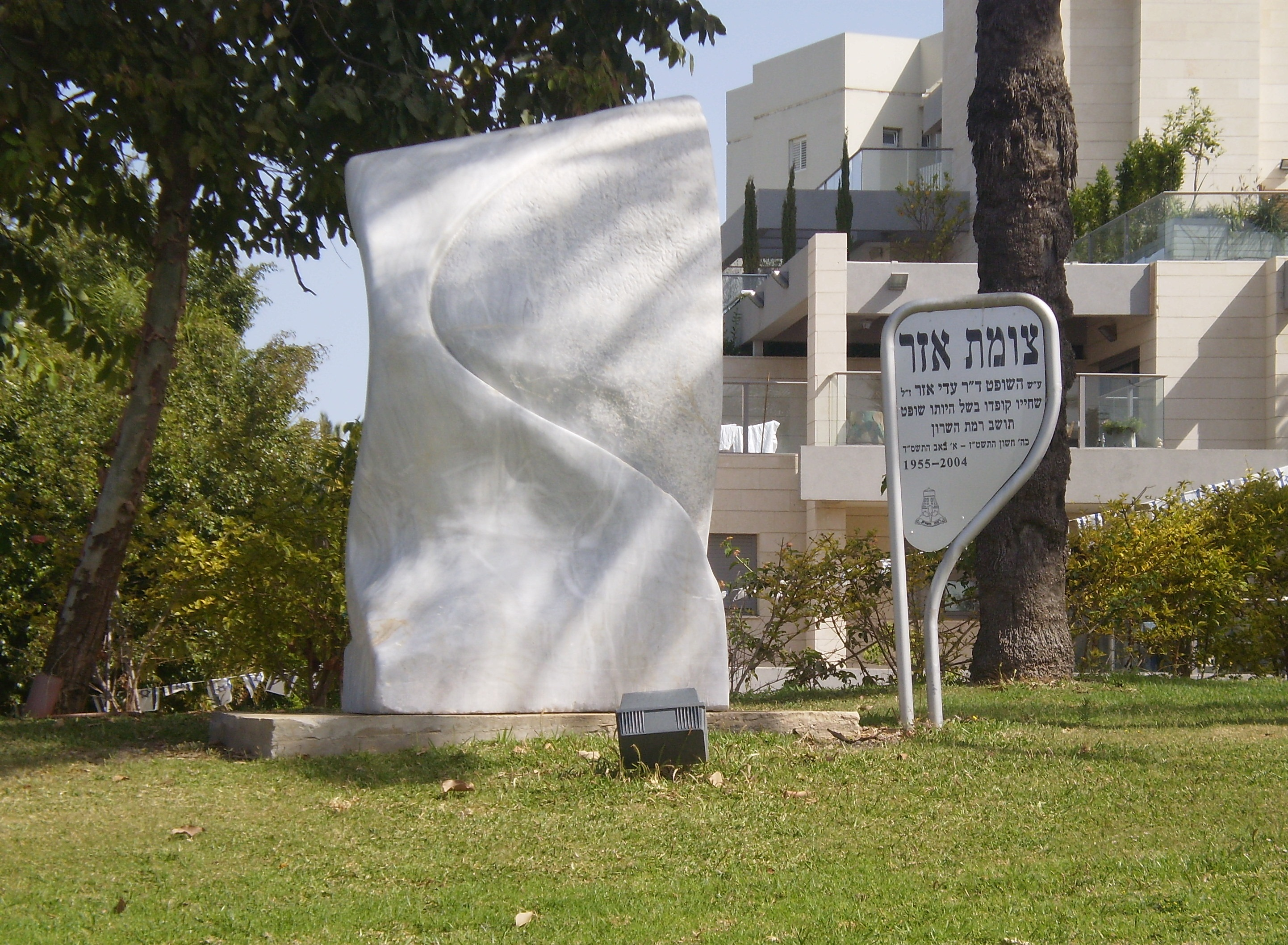 Adi Azar junction, Ramat Hasharon